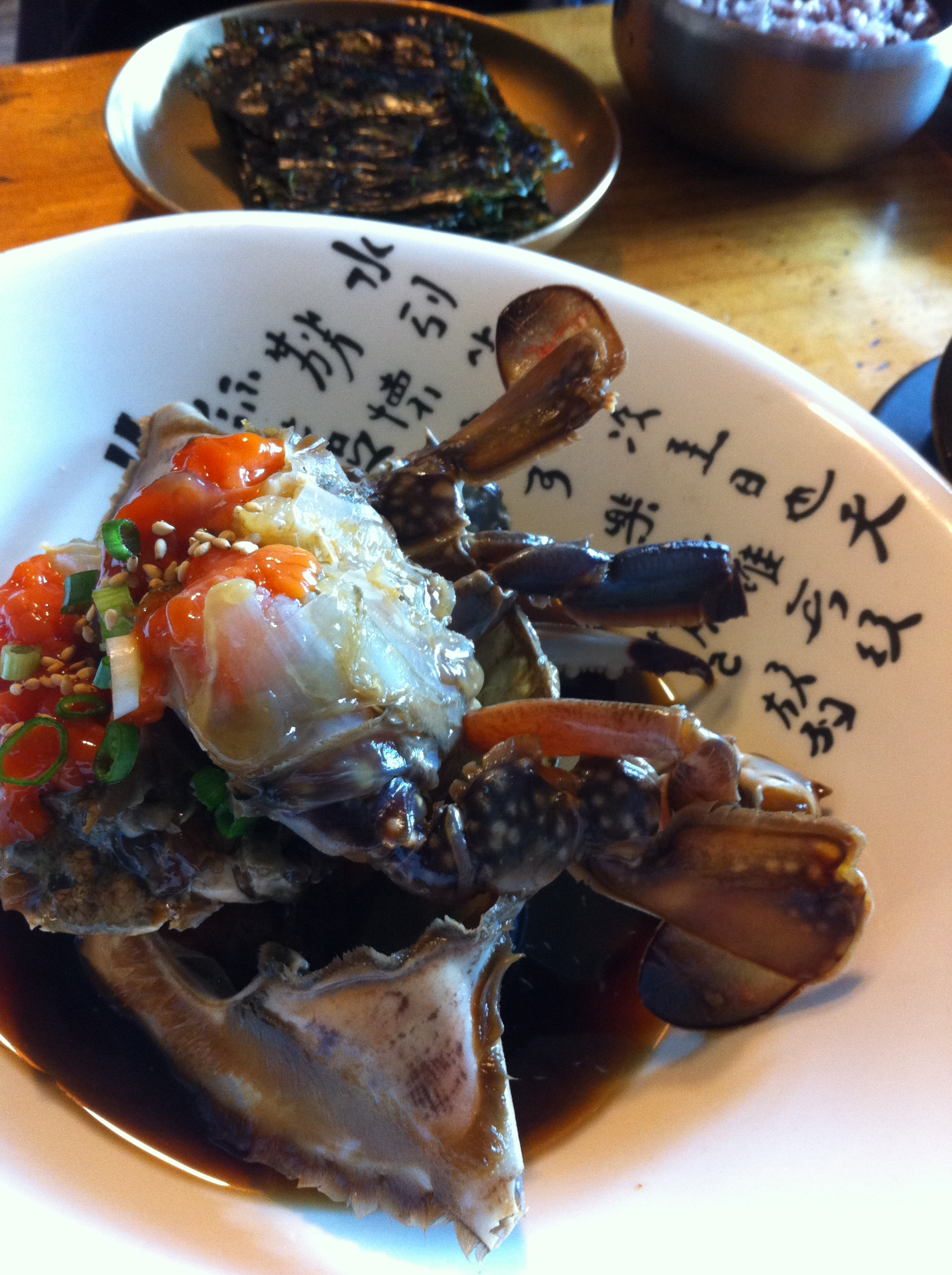 Gejang(Soy soauce)